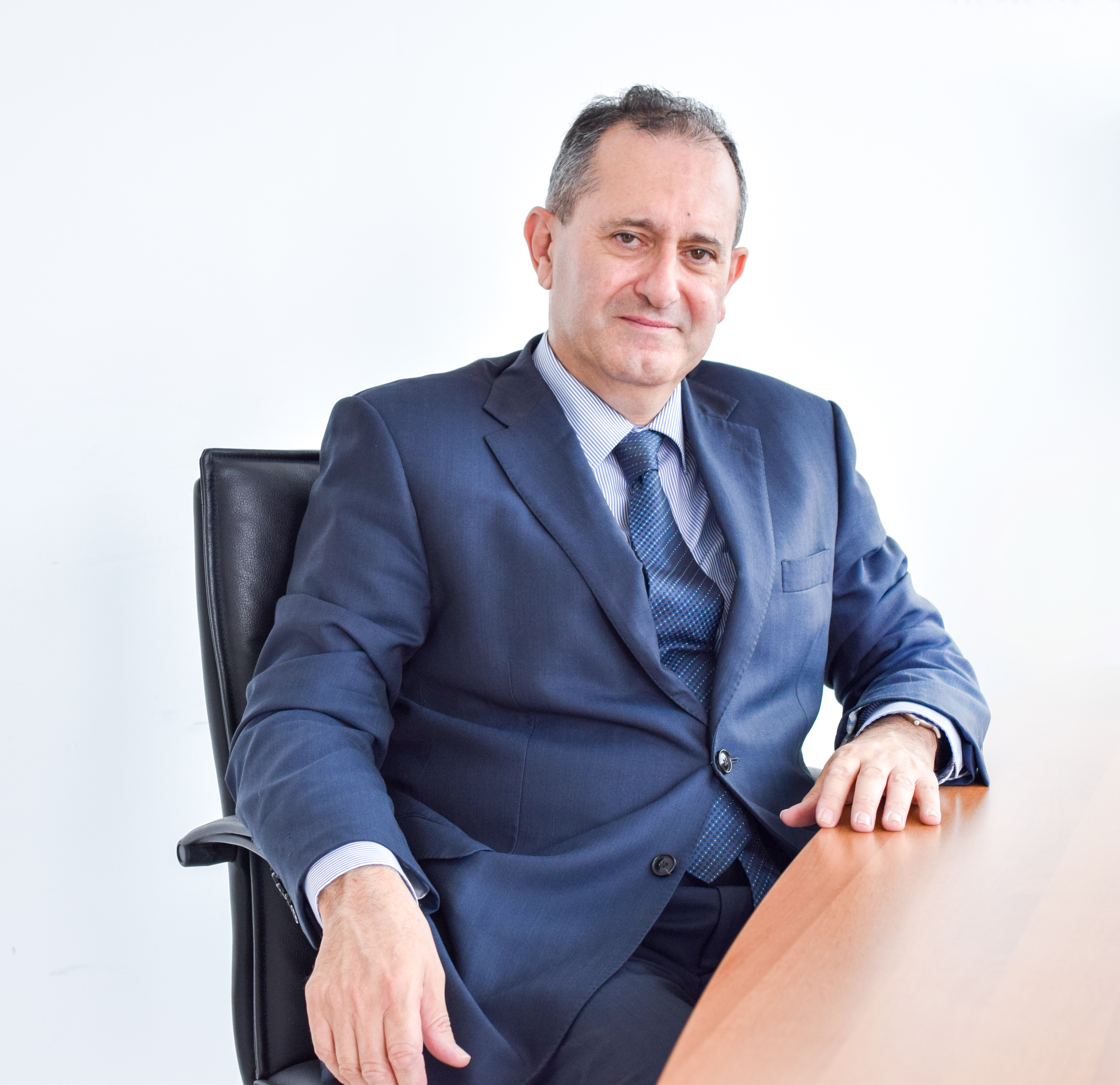 Profile - Joseph F.X. Zahra